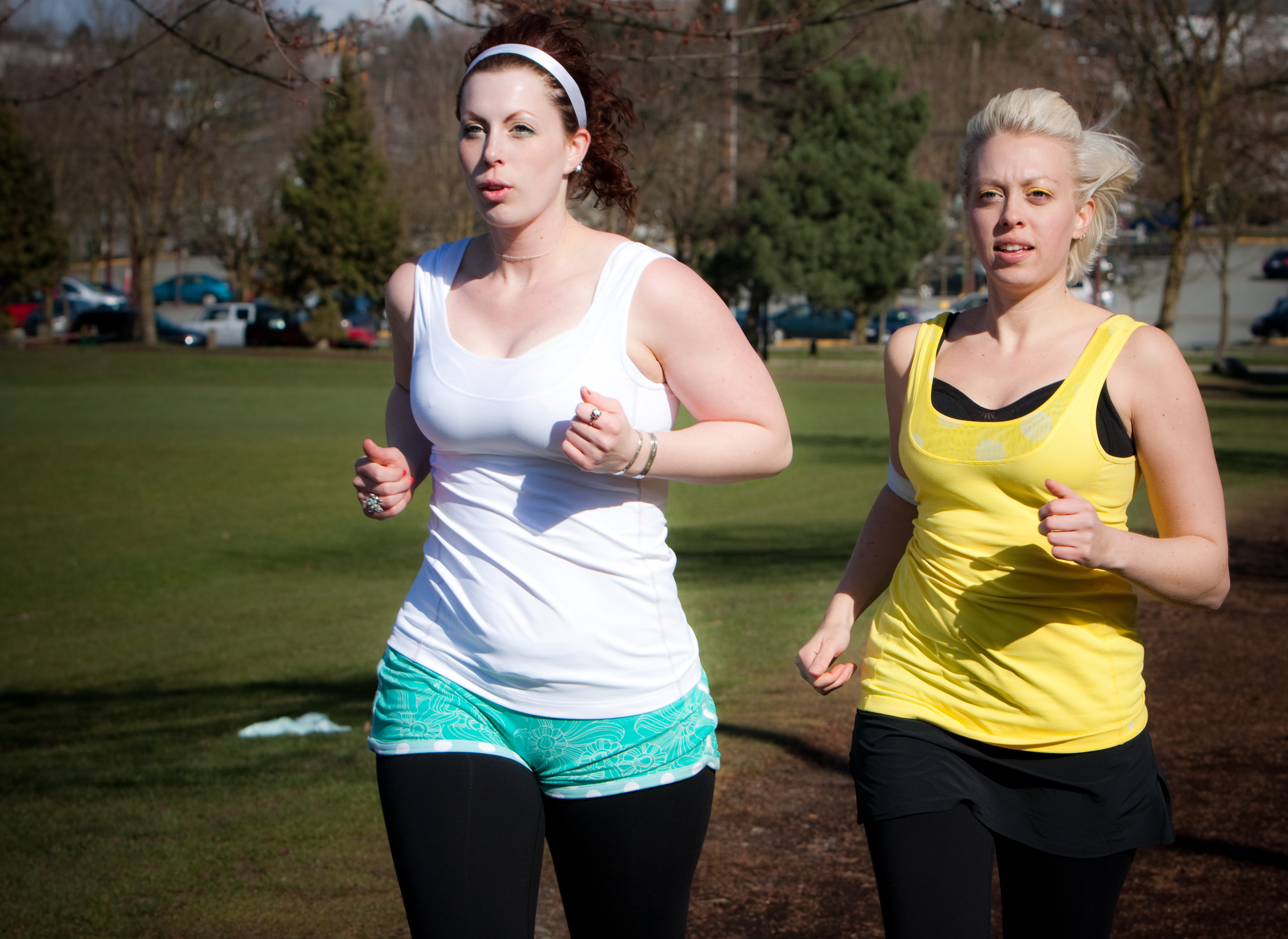 Jogging in the TaTa Tamer!